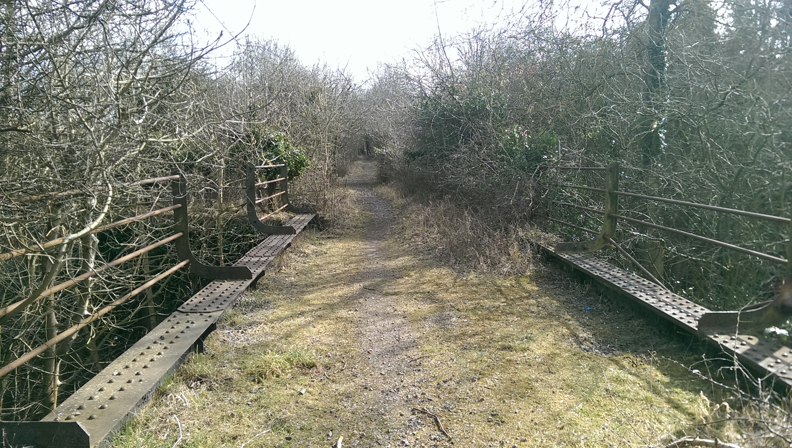 Bridge 1715, carrying the former GER over the former M&GN routes. Now owned by the Norfolk Orbital Railway.